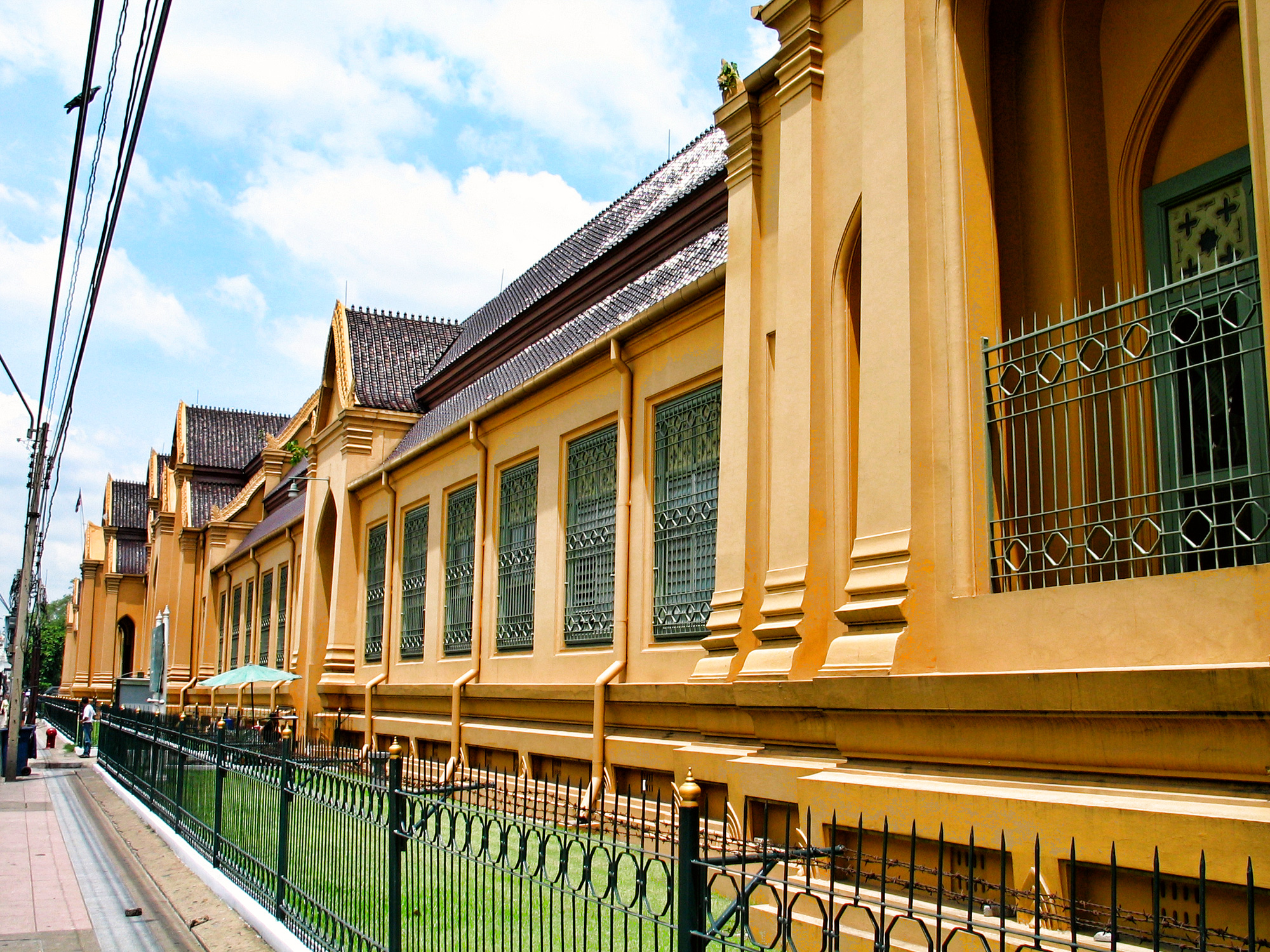 Thawon Watthu Building (former "Hor Phra Samut Vajiravudh" - Vajiravudh Library), Sanam Luang, Bangkok Thailand